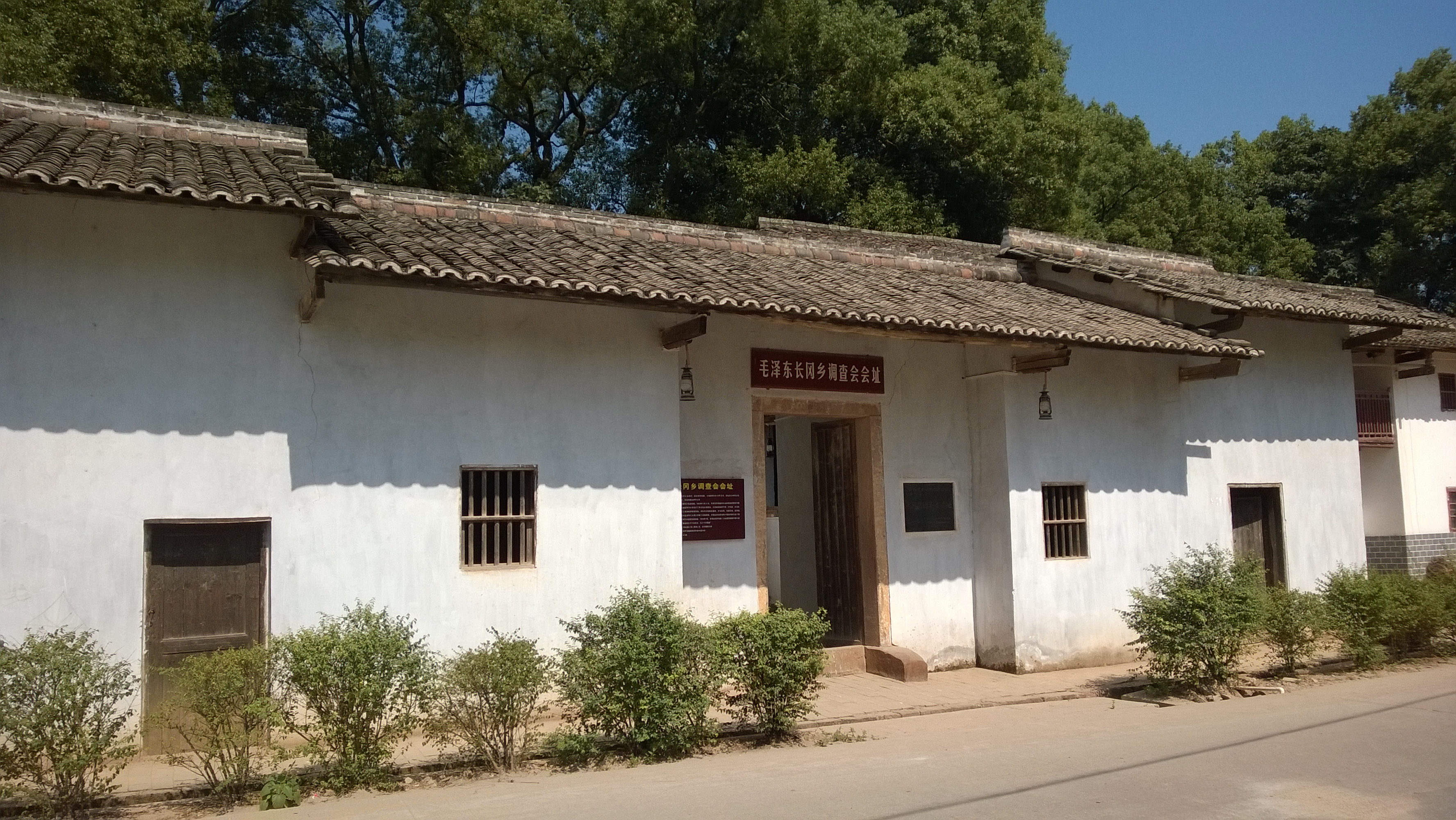 The site of Mao Zedong's Changgang Investigation Conference at Changgang Township, Xingguo County, Jiangxi Province